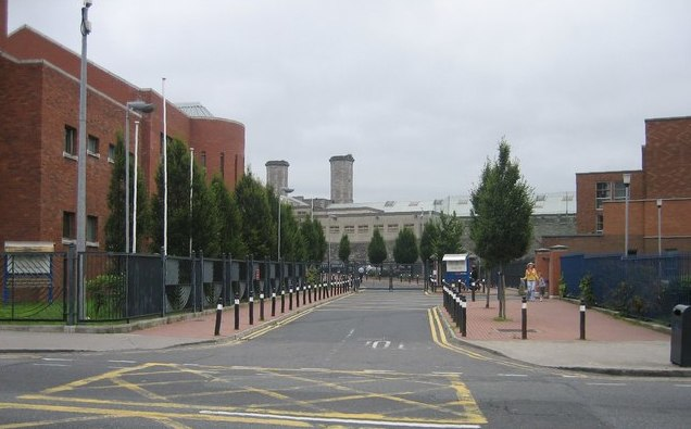 Mountjoy Prison, the main committal prison in the Republic of Ireland.